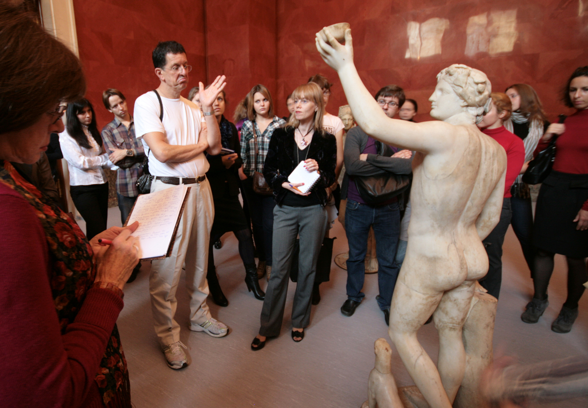 Встреча Энтони Гормли со студентами на выставке